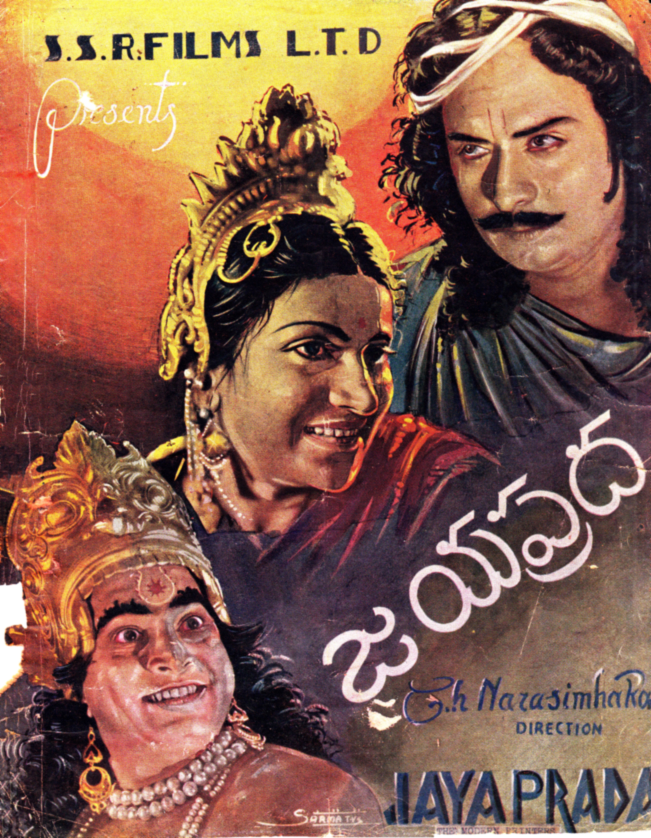 This is a poster of the movie Jayaprada, acquired from the song book of the movie also published in 1939.